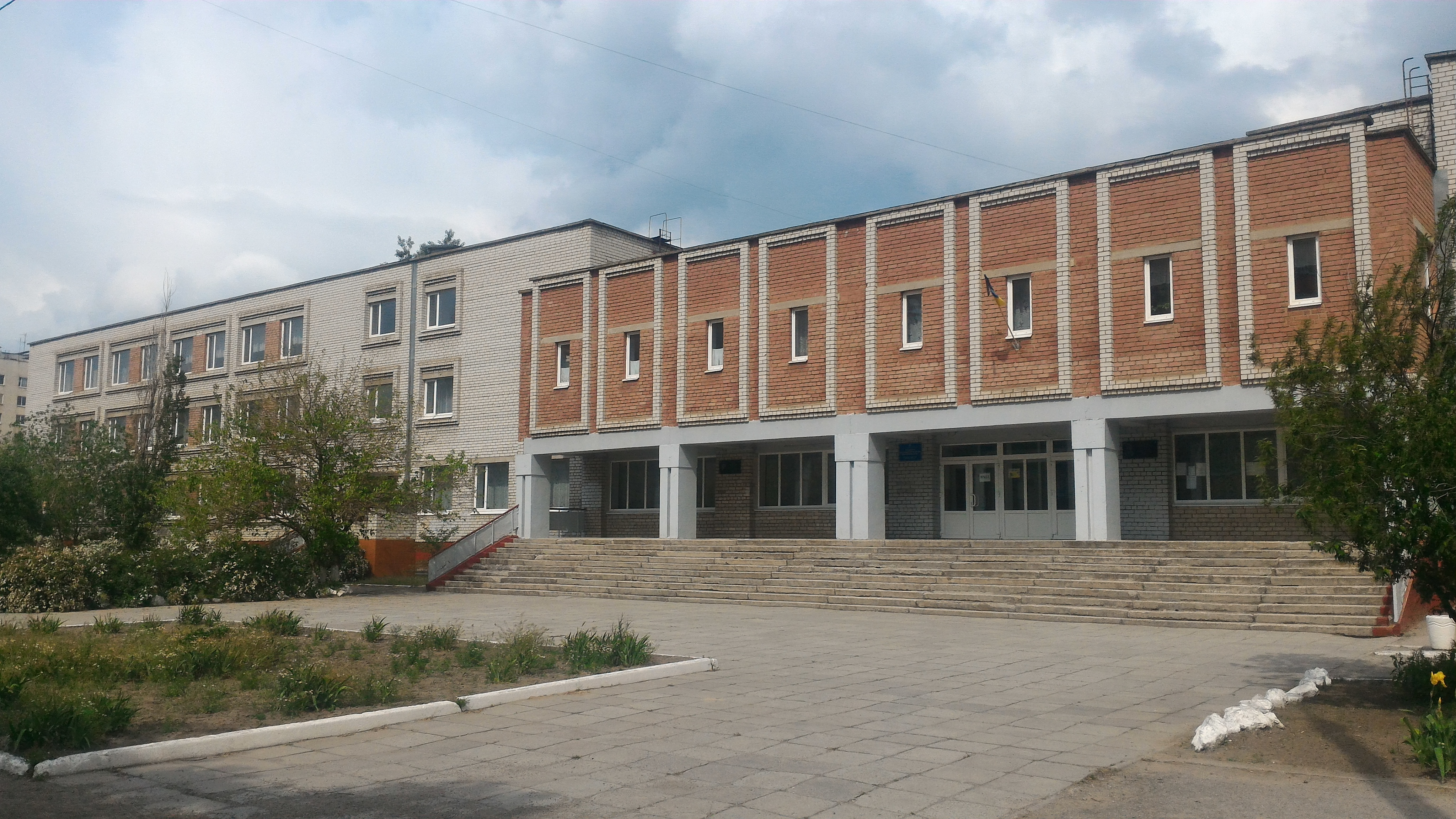 School 97. Yuzhny residential estate in the Komunarskiy raion of Zaporizhzhya